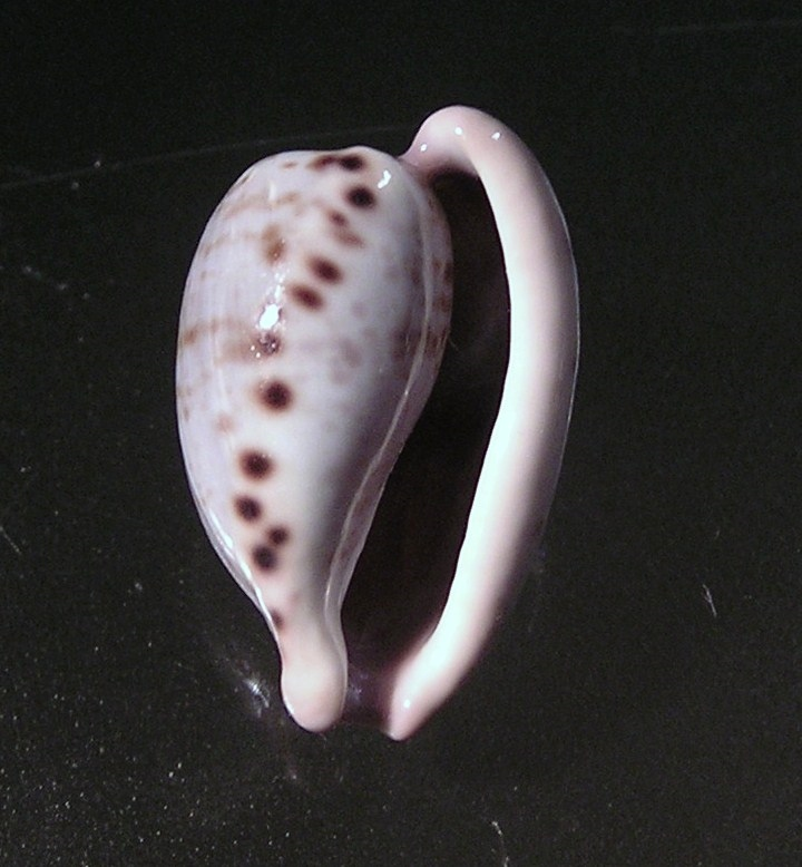 Cypraeovula alfredensis Schilder & Schilder 1929, a cowry in the family Cypraeidae; South Africa